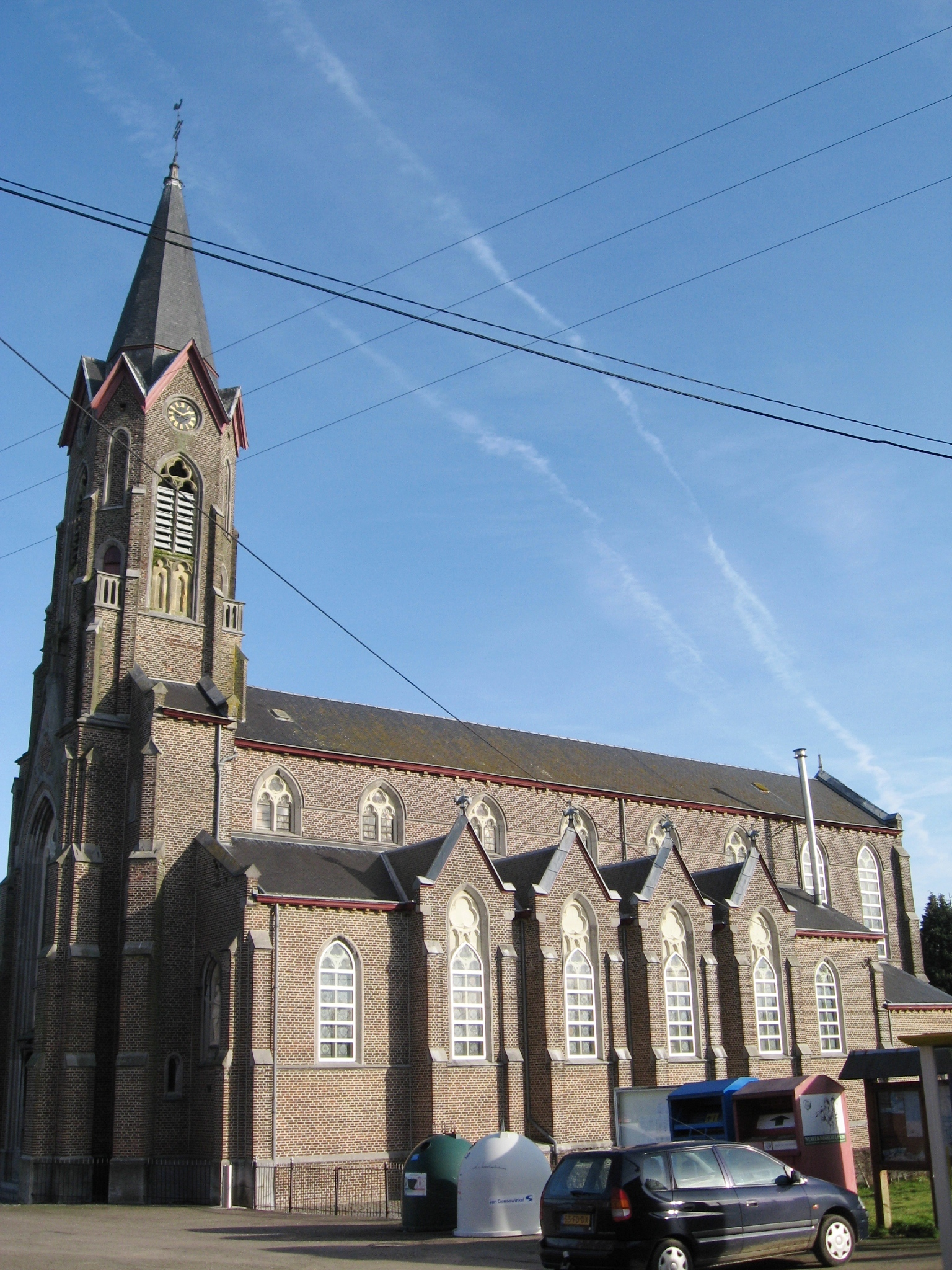 Church of Saint Heribert in Remersdaal, Voeren, Limburg, Belgium